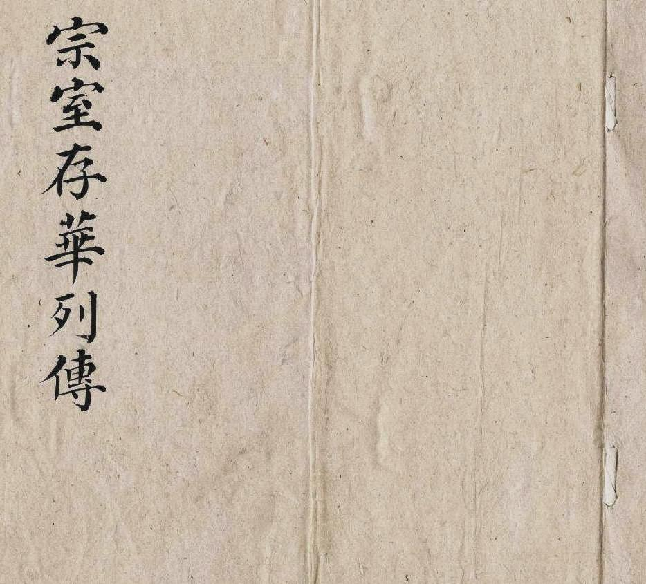 Biography of Cunhua in Qing National Historiography Institute Archives